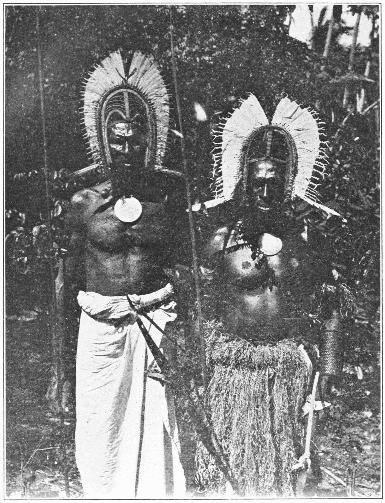 Natives of the murray islands torres straits